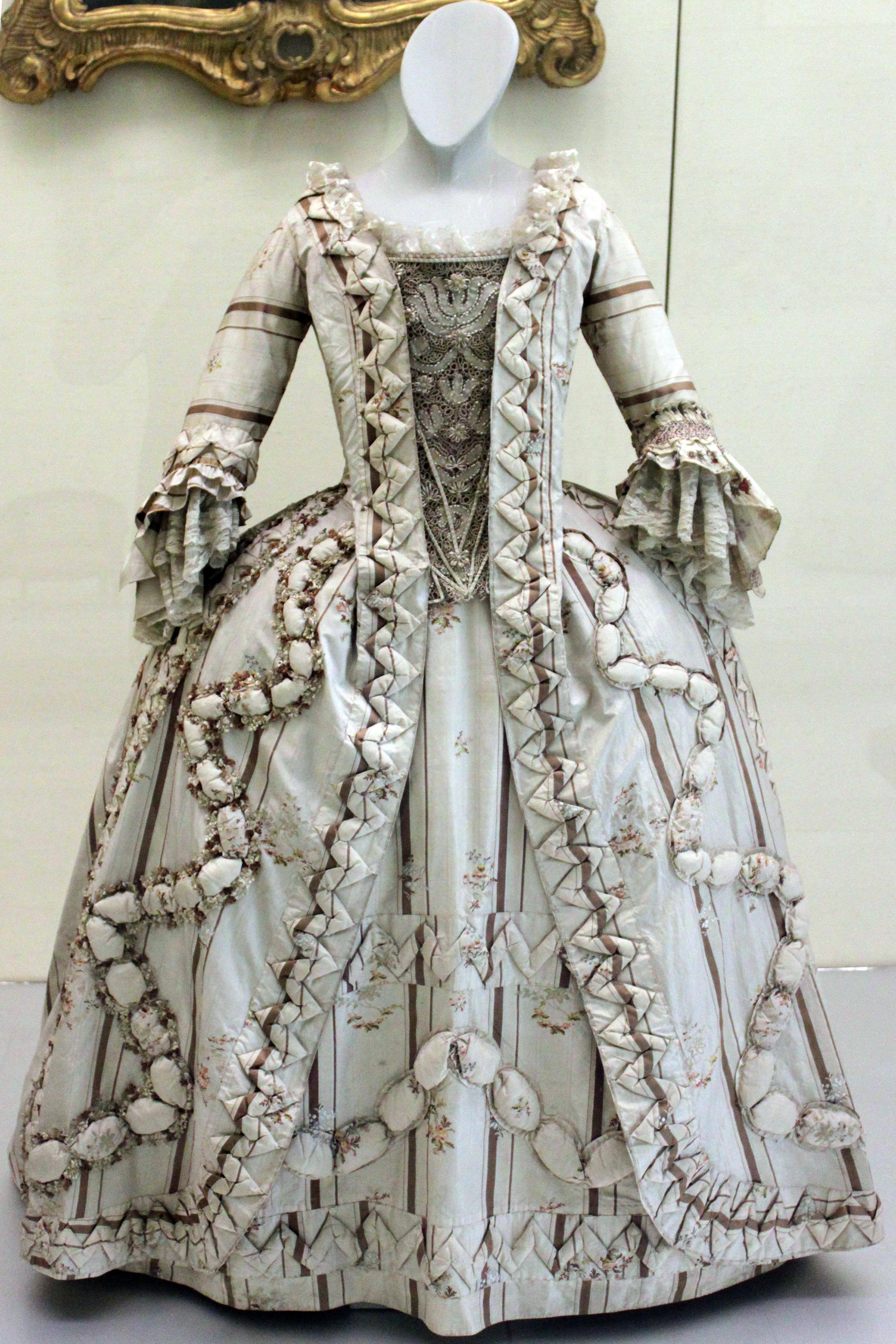 Gown with vertical stripes, 1780; Germanic National Museum in Nuremberg